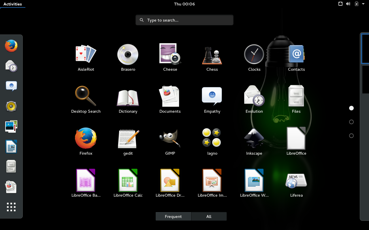 GNOME 3.16 on openSUSE Leap 42.1